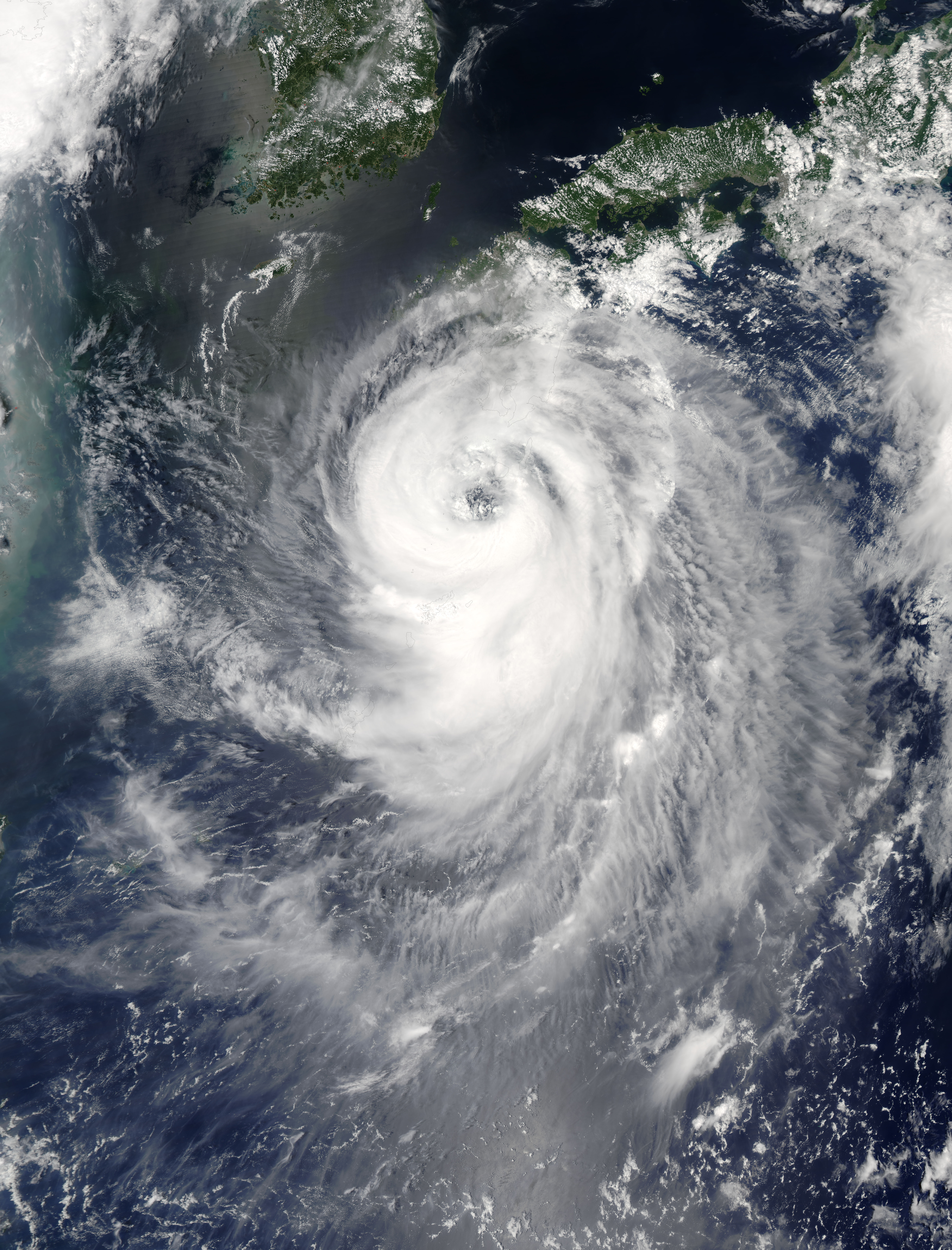 Typhoon Noru near Yakushima and approaching Kyushu on August 5, 2017.